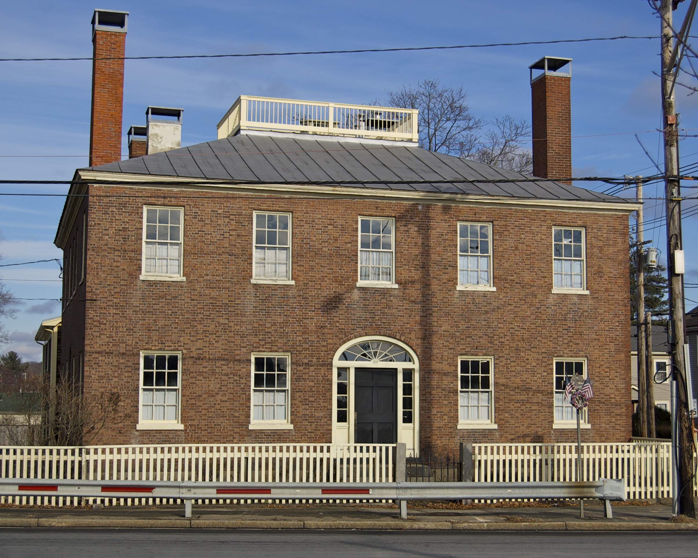 Federal brick house built in 1810 for Samuel Fowler, Jr., who ran a tannery.